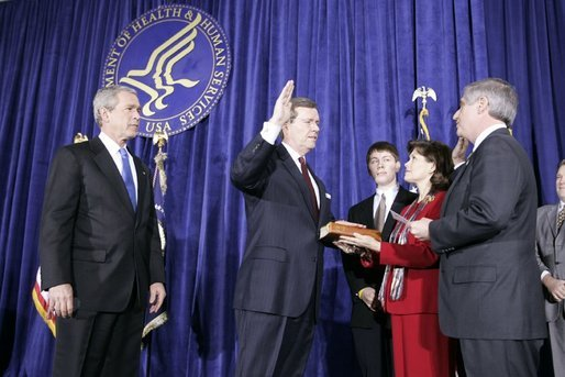 President Thanks HHS Secretary Leavitt at Swearing-In Ceremony. As President George W. Bush looks on, Mike Leavitt is sworn into office as Secretary of Health and Human Services by Chief of Staff Andrew Card. With Mr. Leavitt are his wife, Jackie, and son, Westin. The ceremony took place in the Great Hall at the U.S. Department of Health and Human Services.